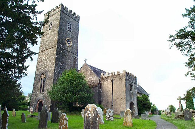 Staverton Church - South Devon. This well looked after church was built around 1320. There's a lot of gravestones in the churchyard.